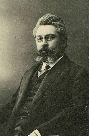 Ivan Nikolaevich Efremov